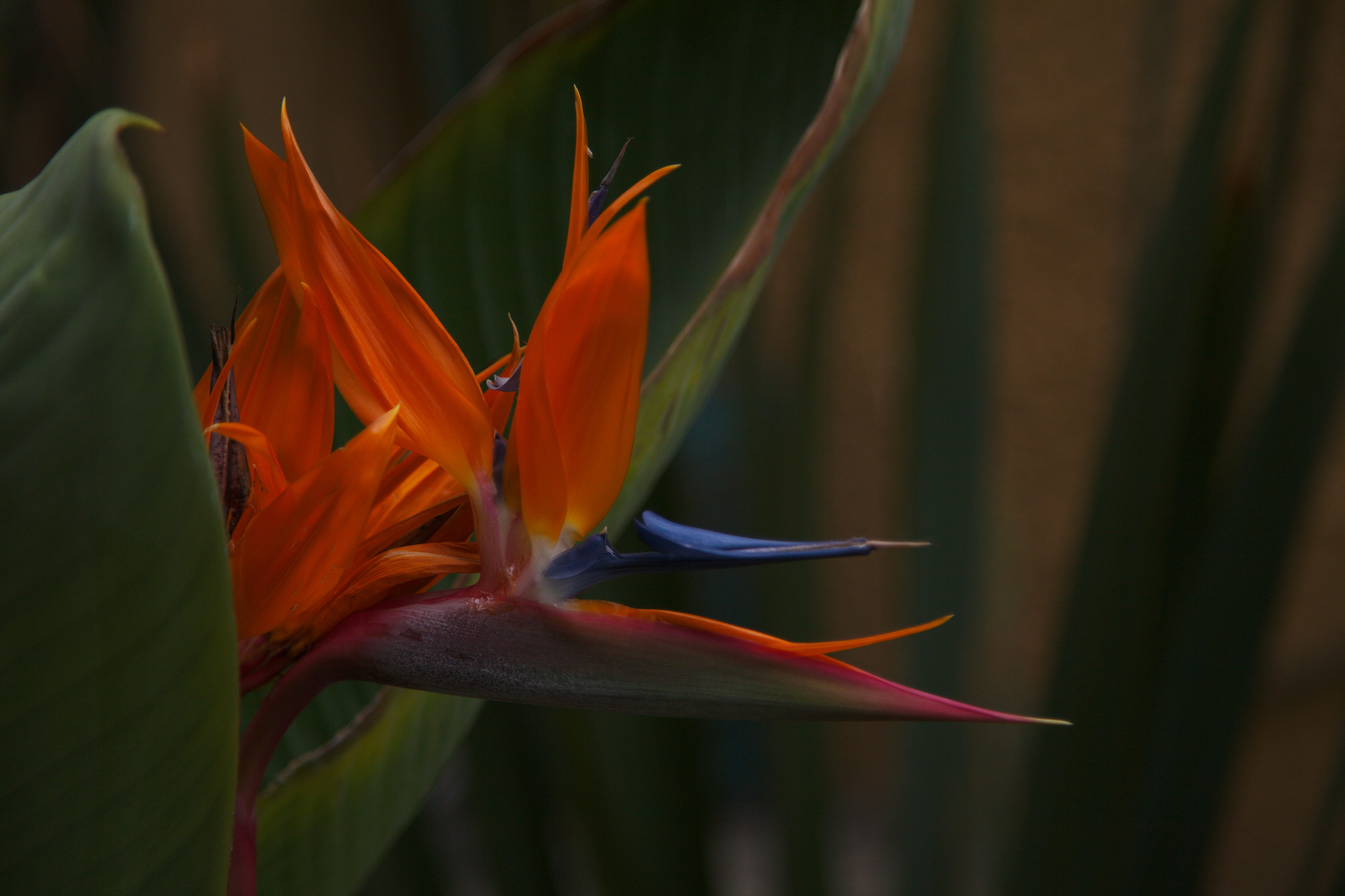 Flower which forms part of the Nature of Ameca, Jalisco, Mexico